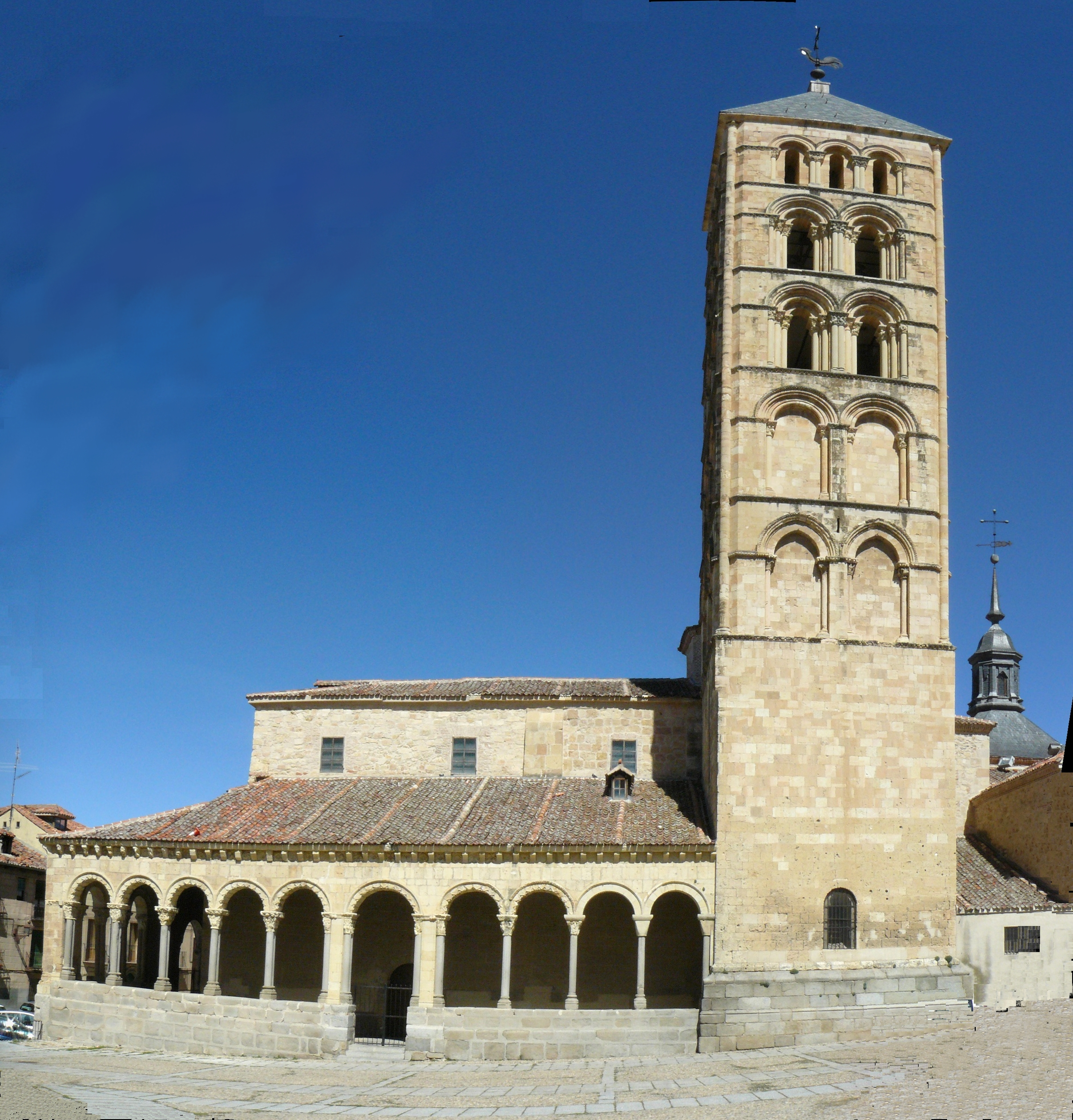 Church of San Esteban, Segovia (Spain).